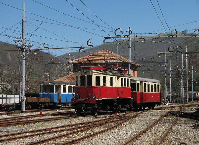 Historic electric CC locomotive 29 (built in 1924 by Carminati & Toselli and TIBB) with historic carriage C104 at Casella Deposito on the Ferrovia Genova - Casella.